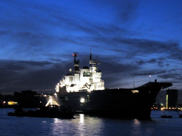 HMS Ark Royal R07 in Greenwich dock, London. Photograph taken by Michael Reeve, 26 February 2004.